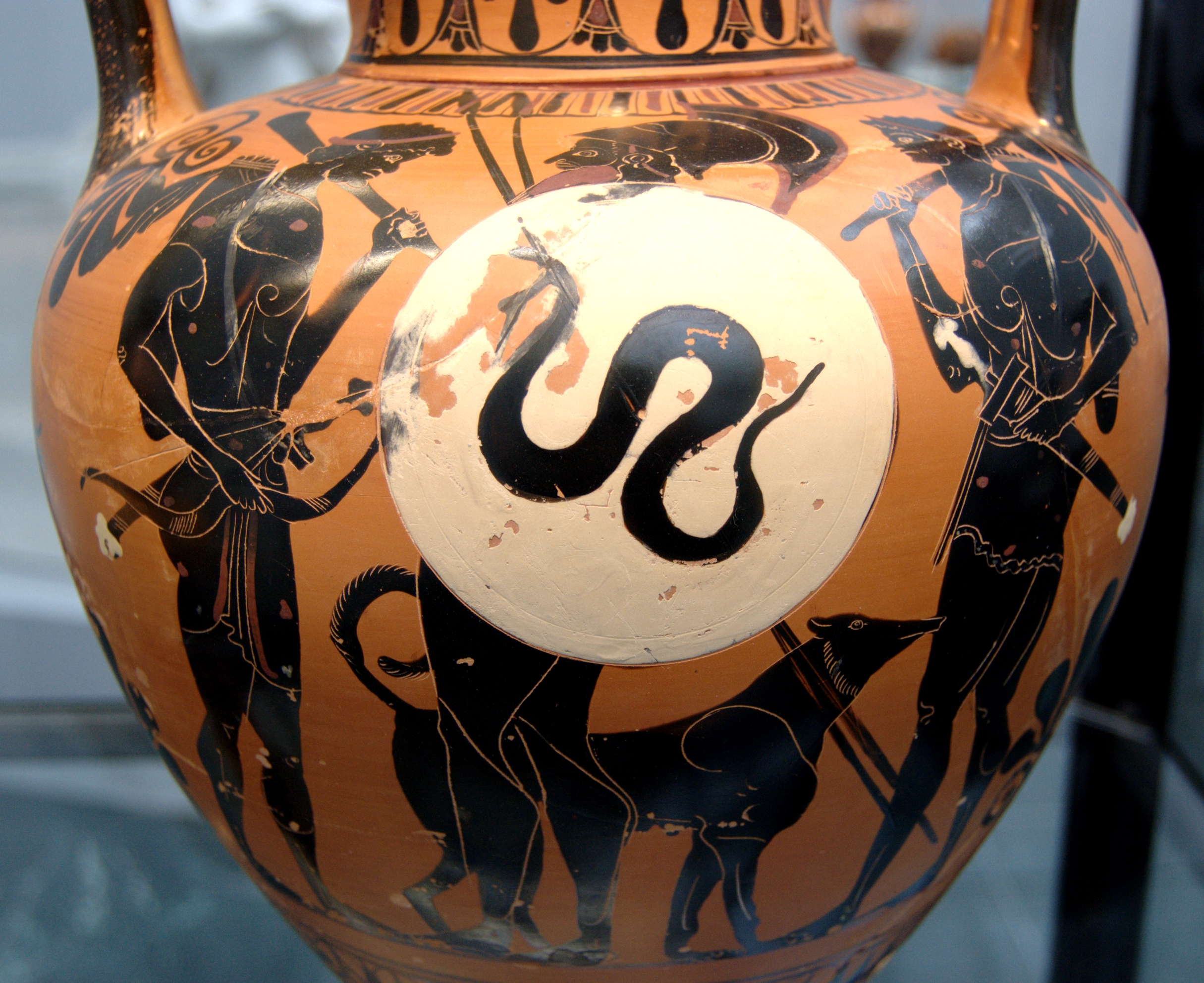 Memnon surrounded by two Ethiopians. Side A of an Attic black-figure amphora, ca. 510 BC. From Vulci.